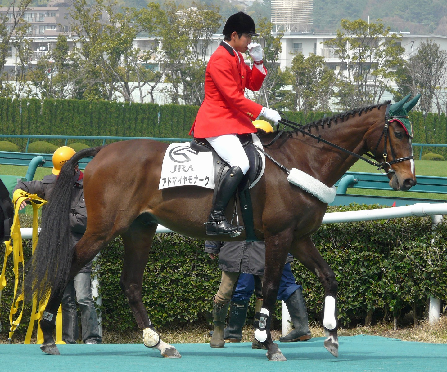 Admire-Monarch